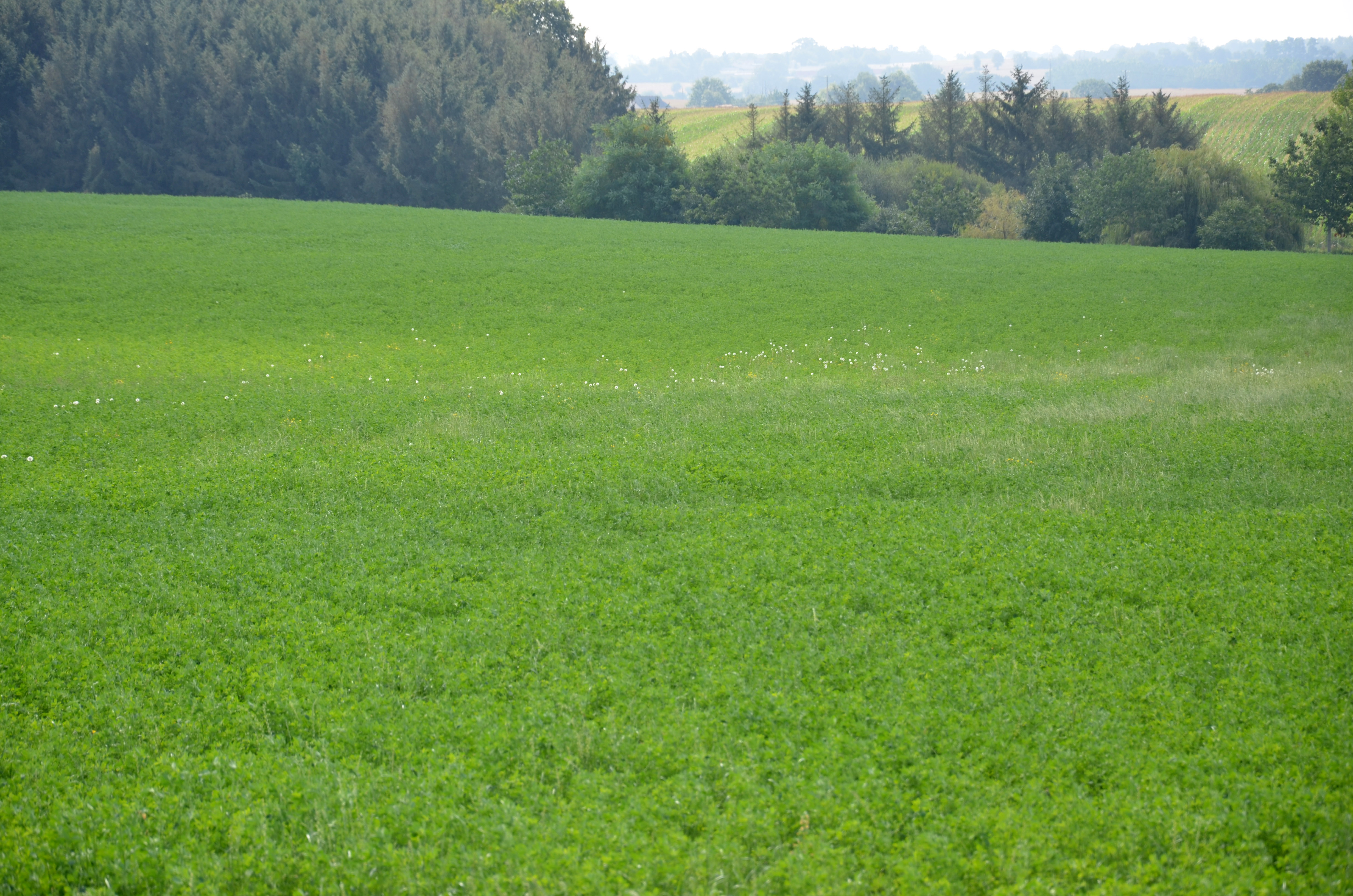 One of some experimental plots of agricultural alfalfa Medicago sativa trying to respect biodiversity better in the territory of Coopédom , (agricultural cooperative grouping in 2012 about 700 active members in a radius of 30 km around the town of Domagné, in “Ille-et-Vilaine”, Brittany (France). We distinguish a few dandelions and small white flowers in the plot. At the time of the photo, taken by beautiful weather (August 21, 2012 at 11:30 am) no bird or butterfly (or other flying insect) was visible in the near field of vision of the observer. These plants are intended to be dehydrated to contribute to self feed and protein for farms adhering to the cooperative. See also (in another region: [JEREMY MIRROR FRAME PROGRAM SYMBIOSE VERTE.pdf "Project Symbiosis and experimentation alfalfa"] Paper Jeremy MIRROR Moderator for Champagne Ardenne Regional Botanical Conservatory, for a conference "Agriculture, Biodiversity and Productivity: The Case of alfalfa" (12 October 2011)